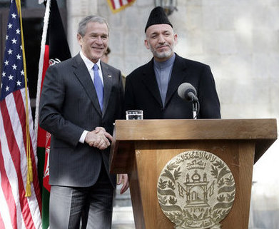 U.S. President George W. Bush and Afghan President Hamid Karzai appear together Wednesday, March 1, 2006, at a joint news conference at the Presidential Palace in Kabul, Afganistan.